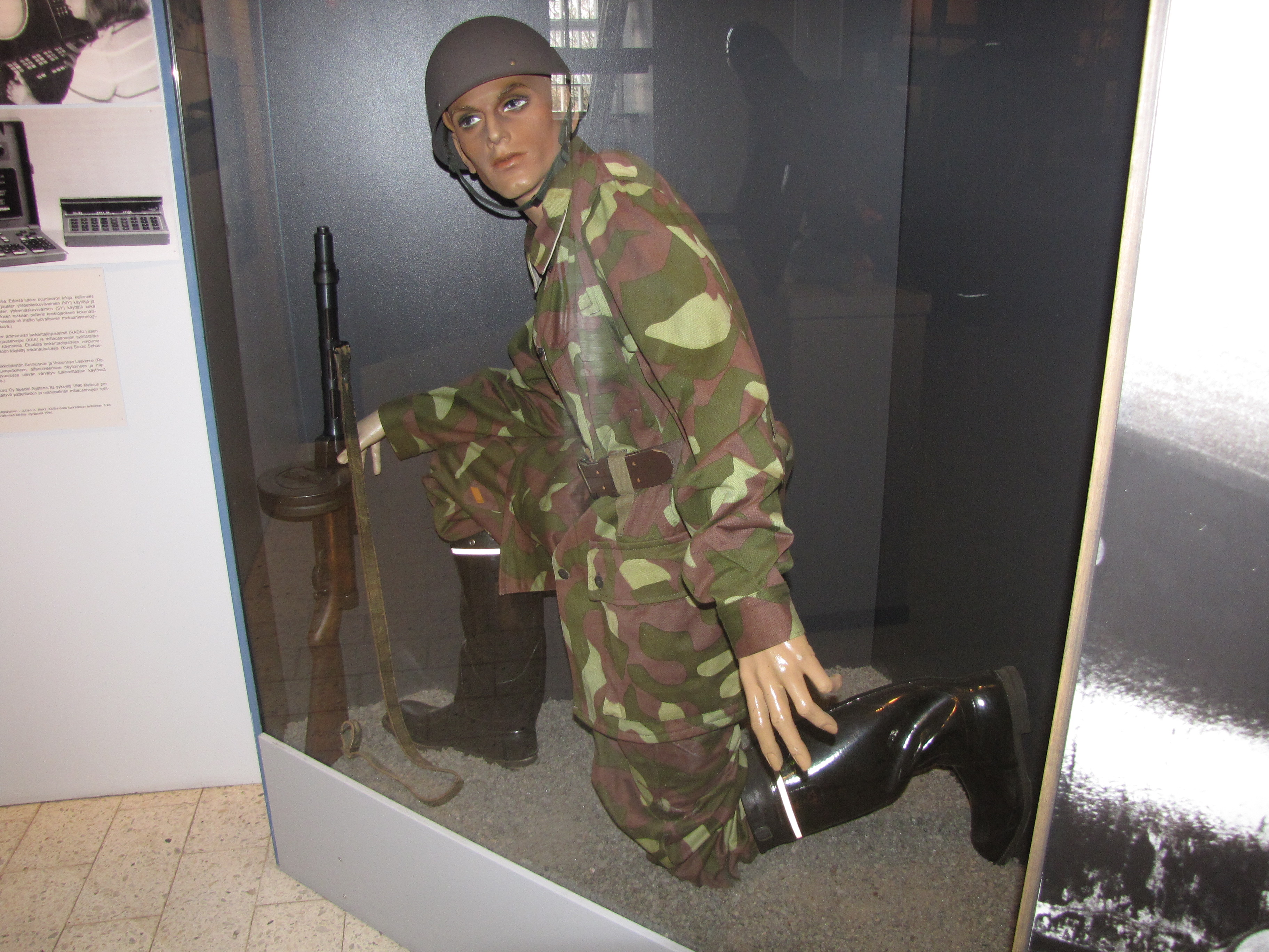 Finnish coastal artillery private in standard camouflage uniform m/62, armed with Suomi KP/31 SJR submachine gun.